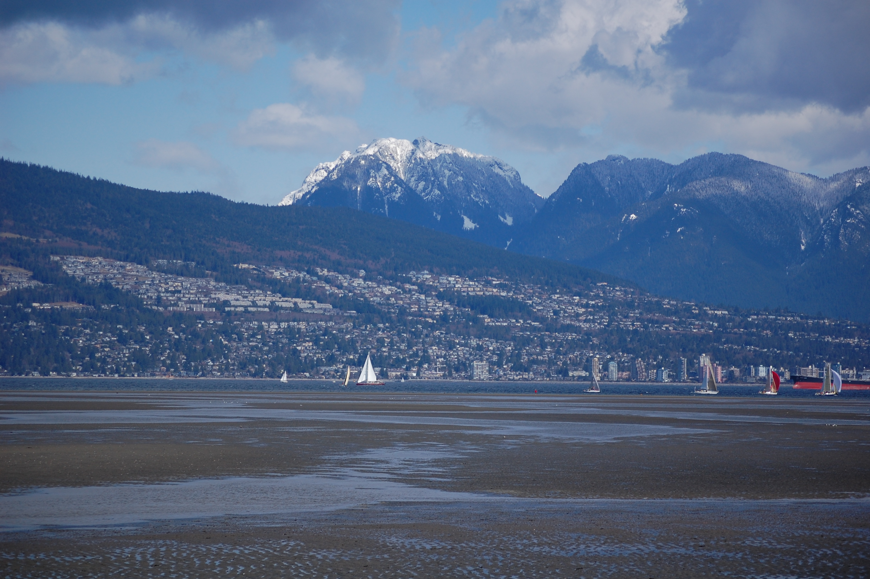 A view of Vancouver's North Shore, with Spanish Banks exposed in a spring low tide.